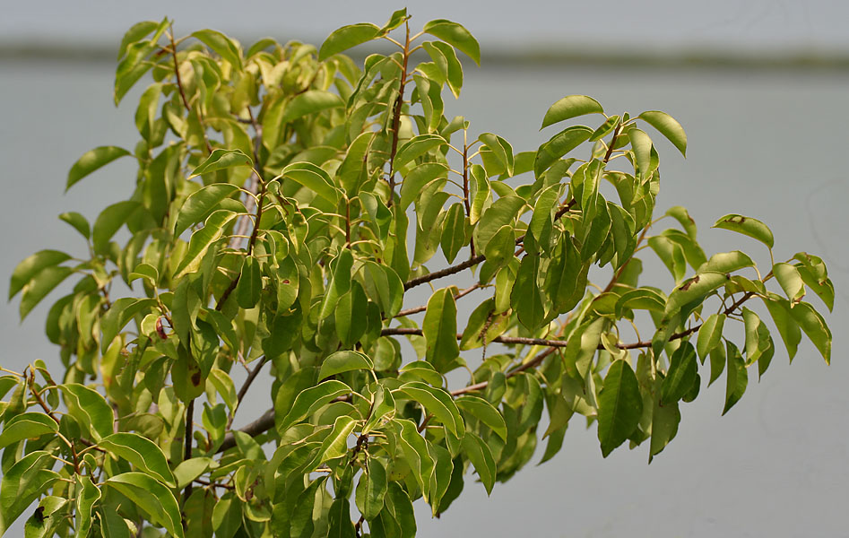 Blind Your Eye Excoecaria agallocha in Krishna Wildlife Sanctuary, Andhra Pradesh, India.